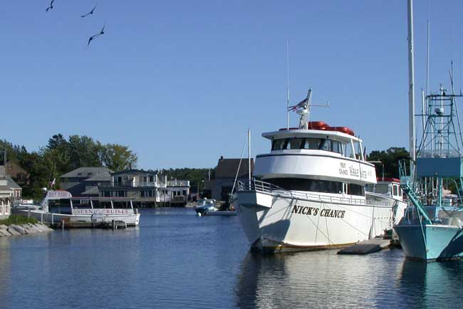 Boats on the Kennebunk River at Kennebunkport (taken Sept. 20, 2004) 2004 Matthew Trump